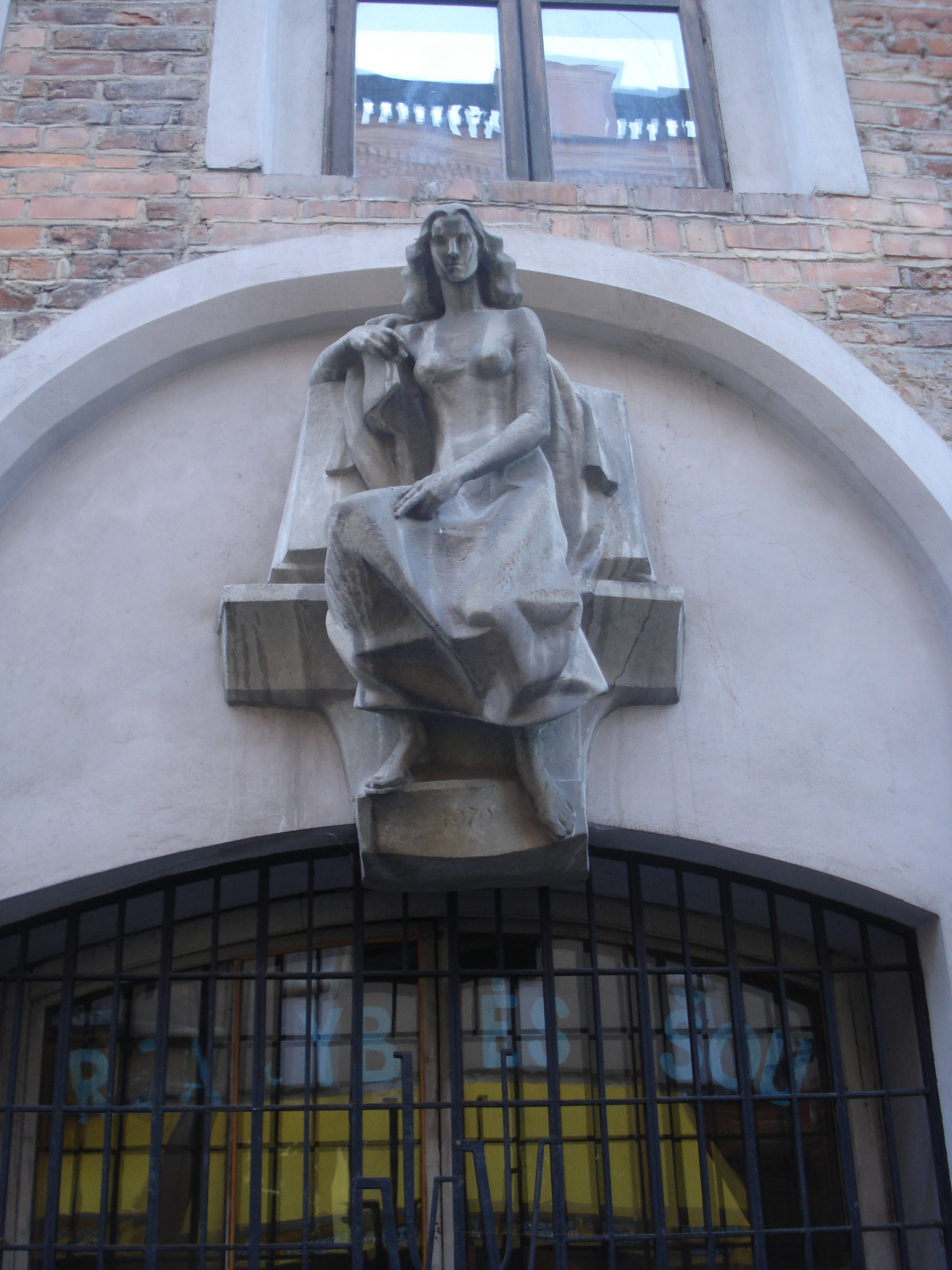 Allegoric statue "Philology" by Eglė Jokubonytė on the Vilnius University building (Pilies g.; 1979).